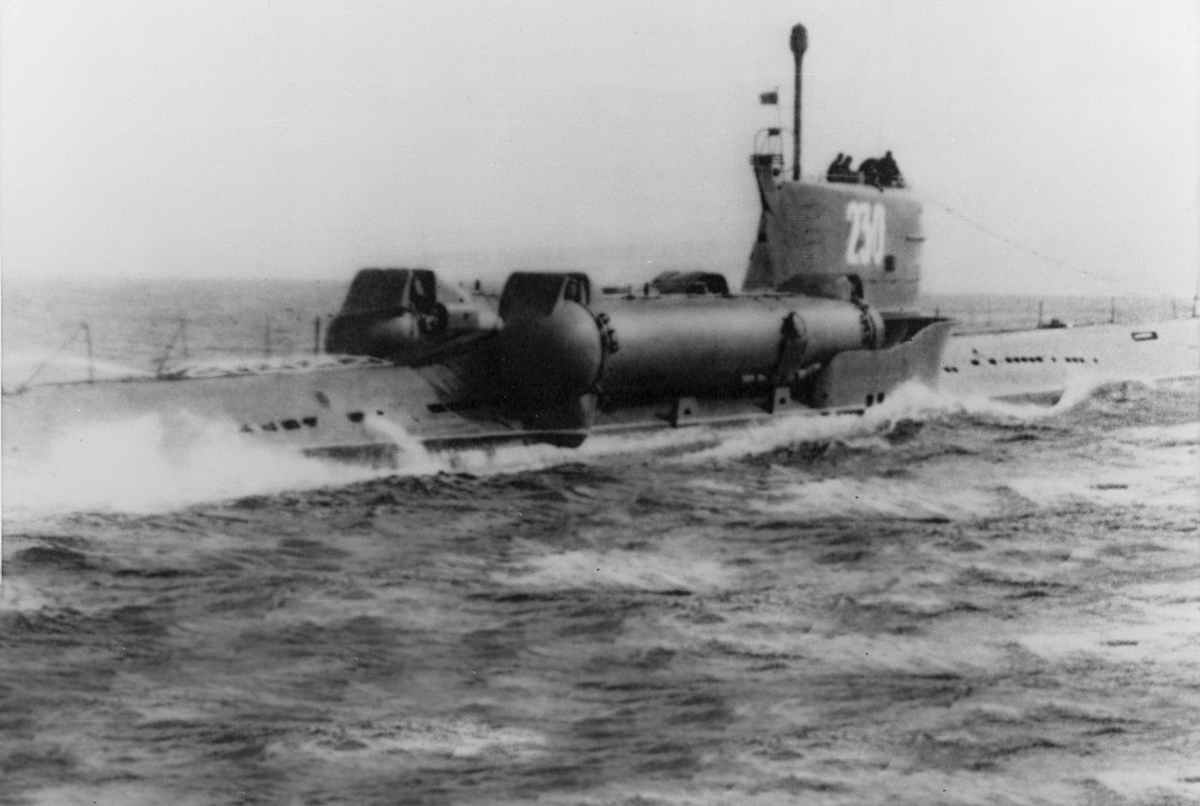 Soviet submarine of the Whiskey Twin Cylinder class (project 644, modified from project 613).